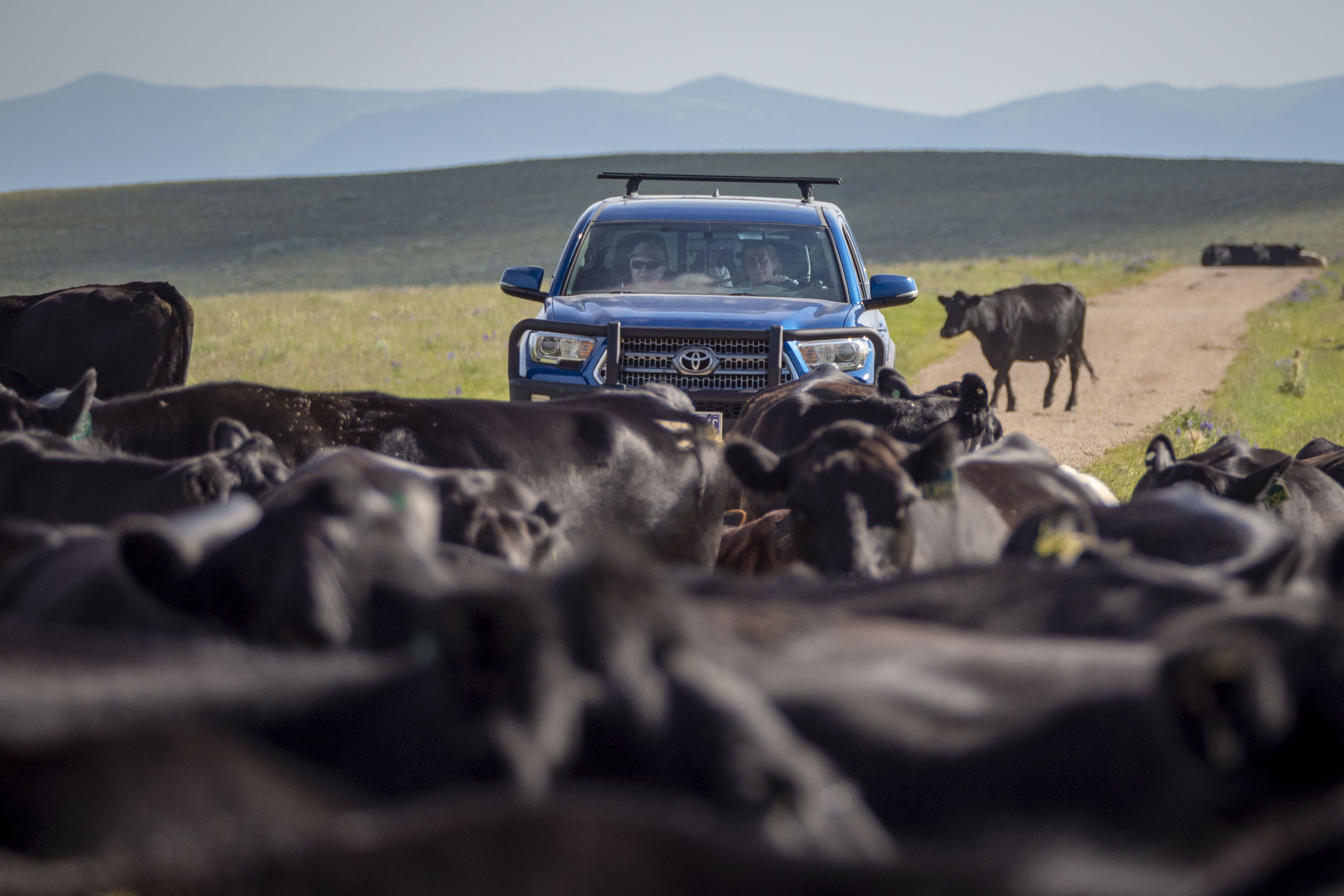 The cattle have the right away as they graze along a road in the Gravelly Mountain Range of Beaverhead-Deerlodge National Forest. Beaverhead-Deerlodge National Forest is the largest of the national forests in Montana, covering 3.35 million acres and throughout eight Southwest Montana counties. USDA Photo by Preston Keres